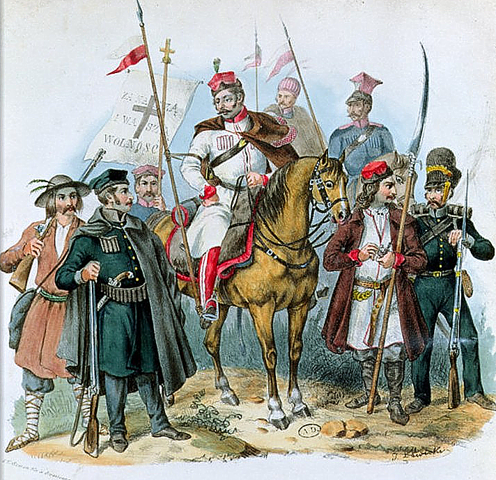 Polish insurgents of the November Uprising 1831